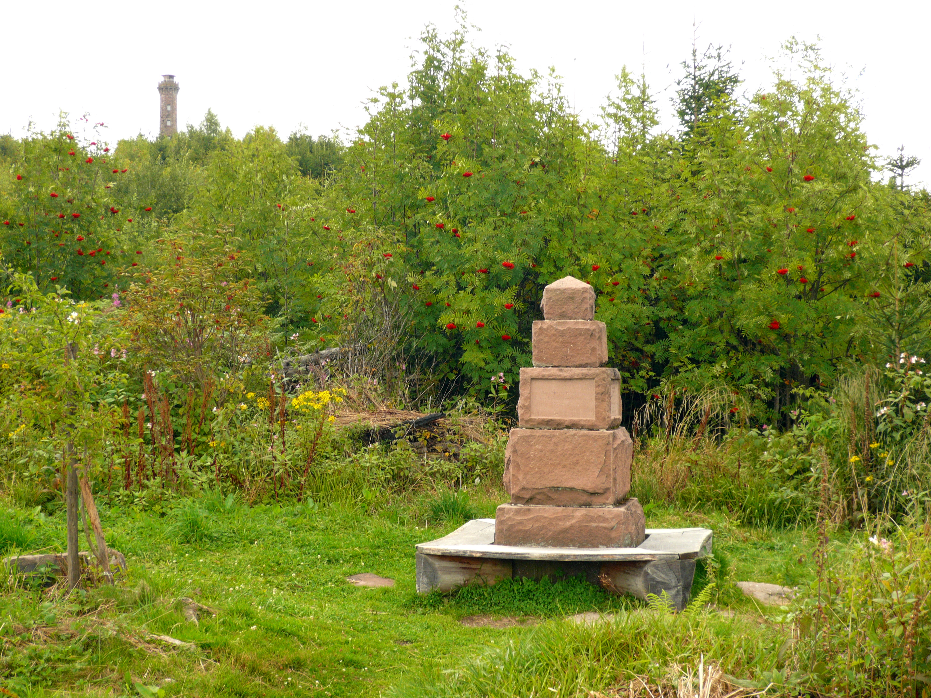 Monument for Grimmelshausen near Mooskopf in Black Forest.